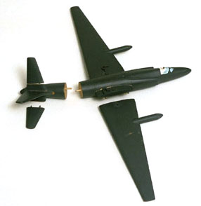 Model of U2 flown by Gary Powers. This wooden model was one of two used by Powers in March 1962 when he testified at the Senate Armed Services Committee about the downing of his aircraft. The wings and tail are detachable to demonstrate the aircraft's breakup upon impact. From